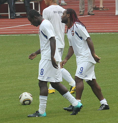 Vágner Love & Seydou Doumbia